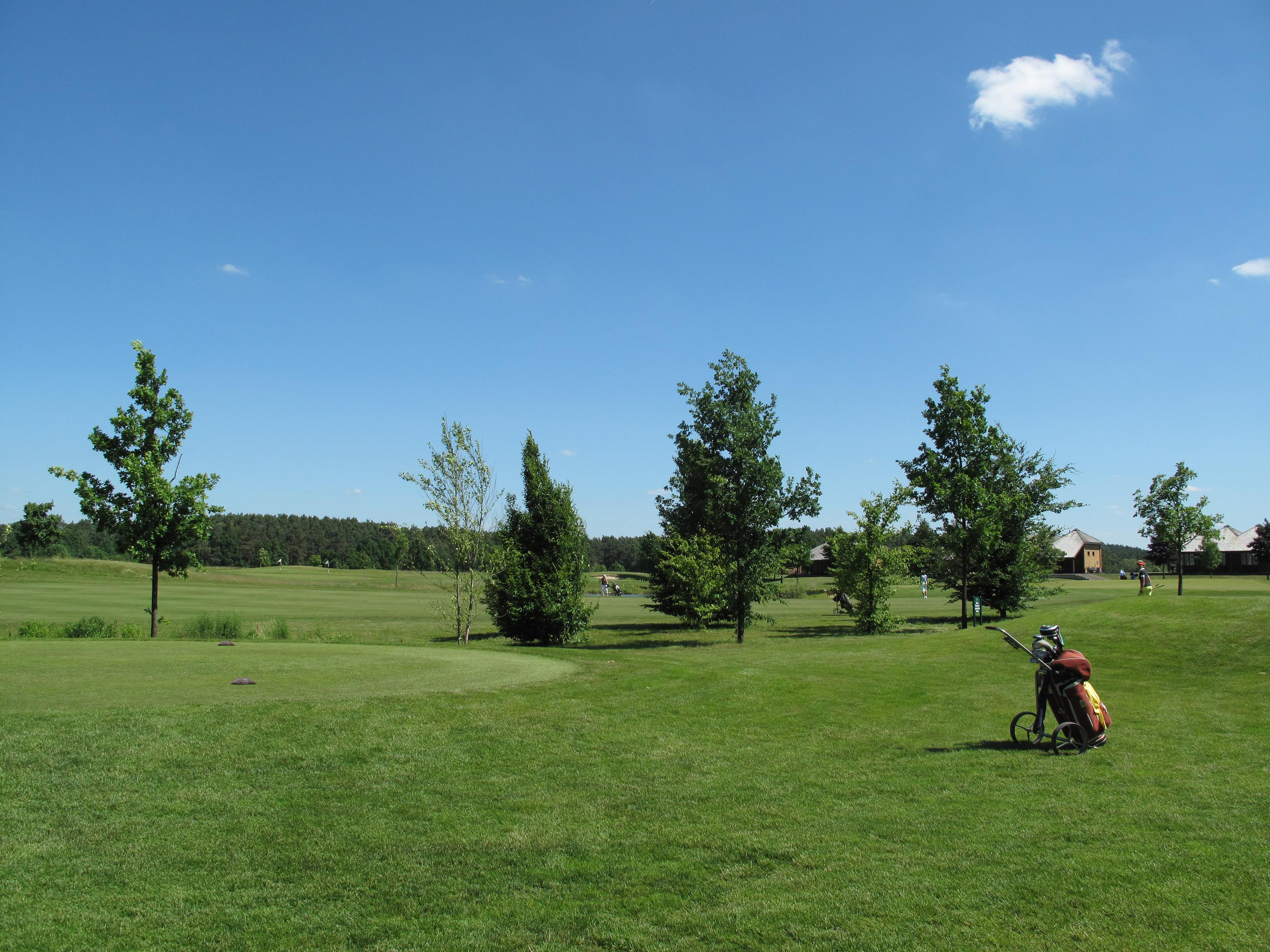 Golf- und Countryclub Seddiner See at the northern lakeshore of the Großer Seddiner See in Wildenbruch. The club, opened in 1997, has two 18-hole courses and a driving range. The ground covers 185 hectares. Wildenbruch is a part of Michendorf in the district Potsdam-Mittelmark, state Brandenburg, Germany.